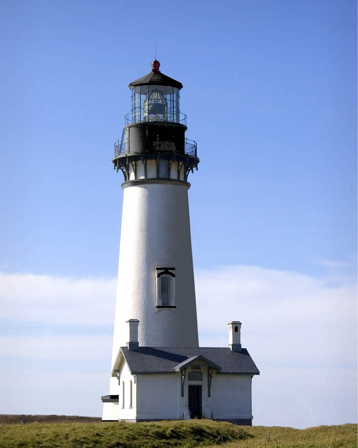 Yaquina Head Outstanding Natural Area extends out from the Oregon coast, one mile into the Pacific Ocean. Standing 93 feet tall at the westernmost point of the basalt headland, the lighthouse has been a bright beacon of the night, guiding ships and their supplies along the west coast since the light was first lit on August 20, 1873. The offshore islands are a year-round refuge for harbor seals and a spring-summer home for thousands of nesting seabirds. Gray whales can be spotted during their annual migrations to Mexico (late fall-early winter) and Alaska (late winter-early spring). During the summer months some gray whales take the opportunity to feed in the shallow waters around the headland. For more information visit: Photos: Bob Wick, BLM California